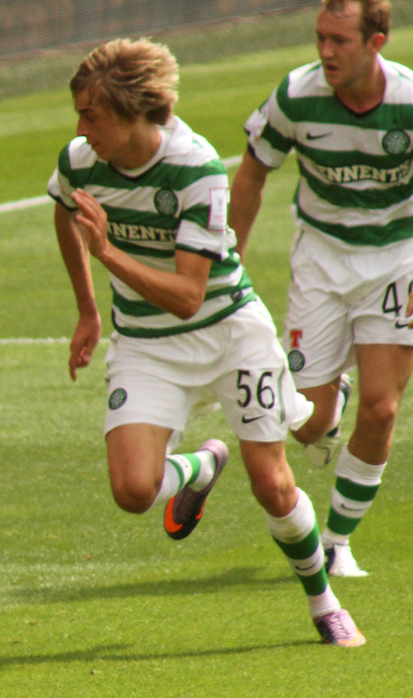 Czech football player Filip Twardzik while playing for Celtic F.C.